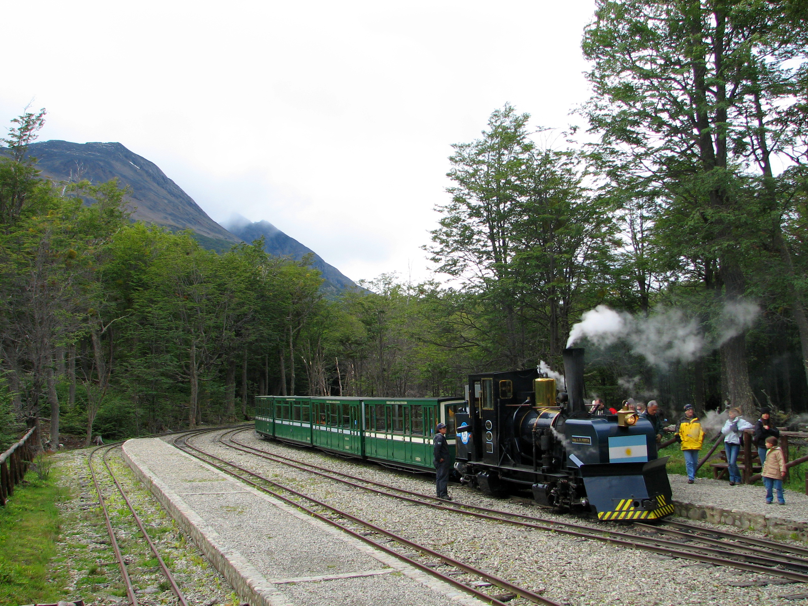 Train at Casacada La Macarena station